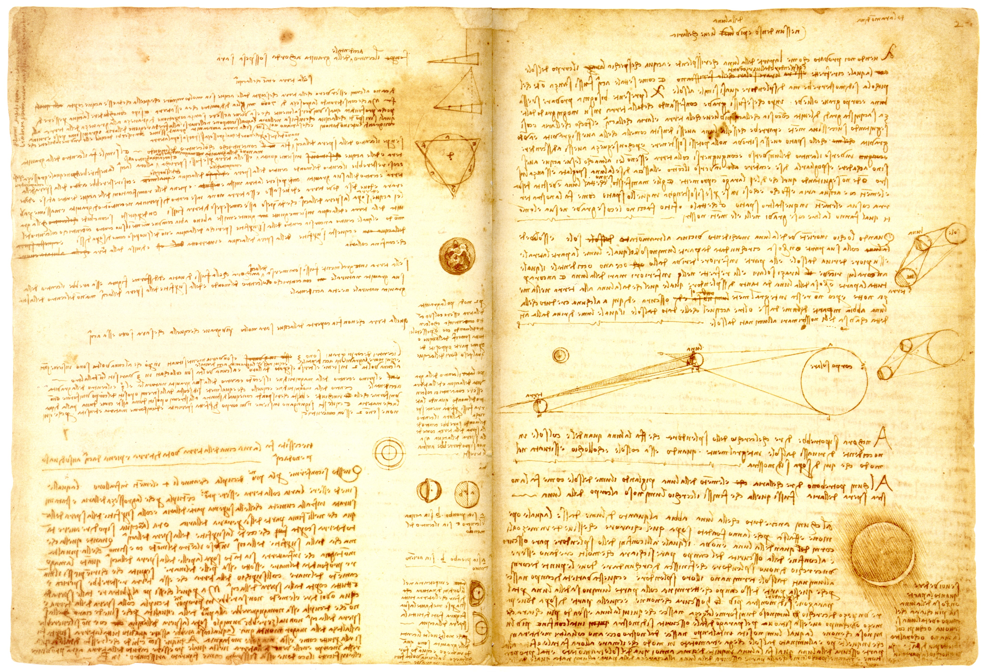 Codex Leicester Hammer 2A – Fol.35v (left) and Fol.2r (right)